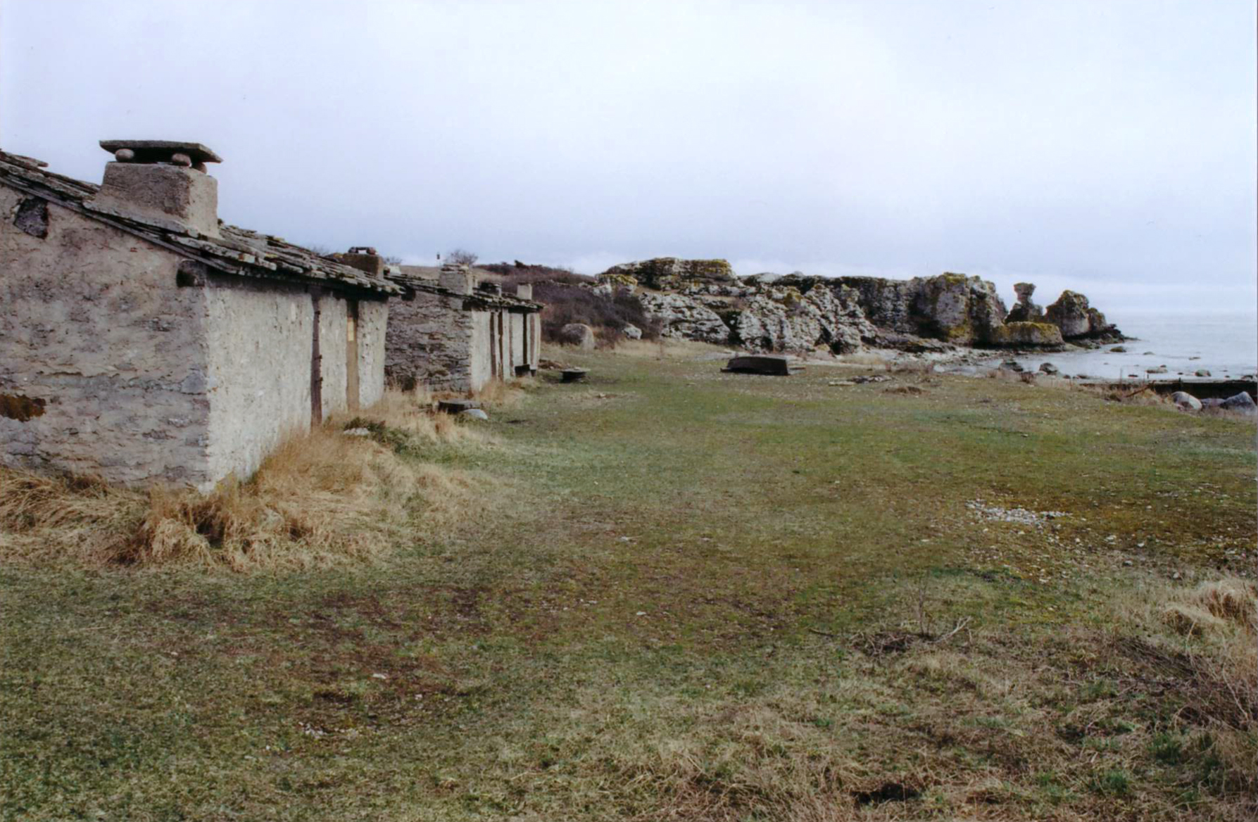 Stone fishing huts in Holm fishing village at Holmhällar, Vamlingbo, Gotland, Sweden.